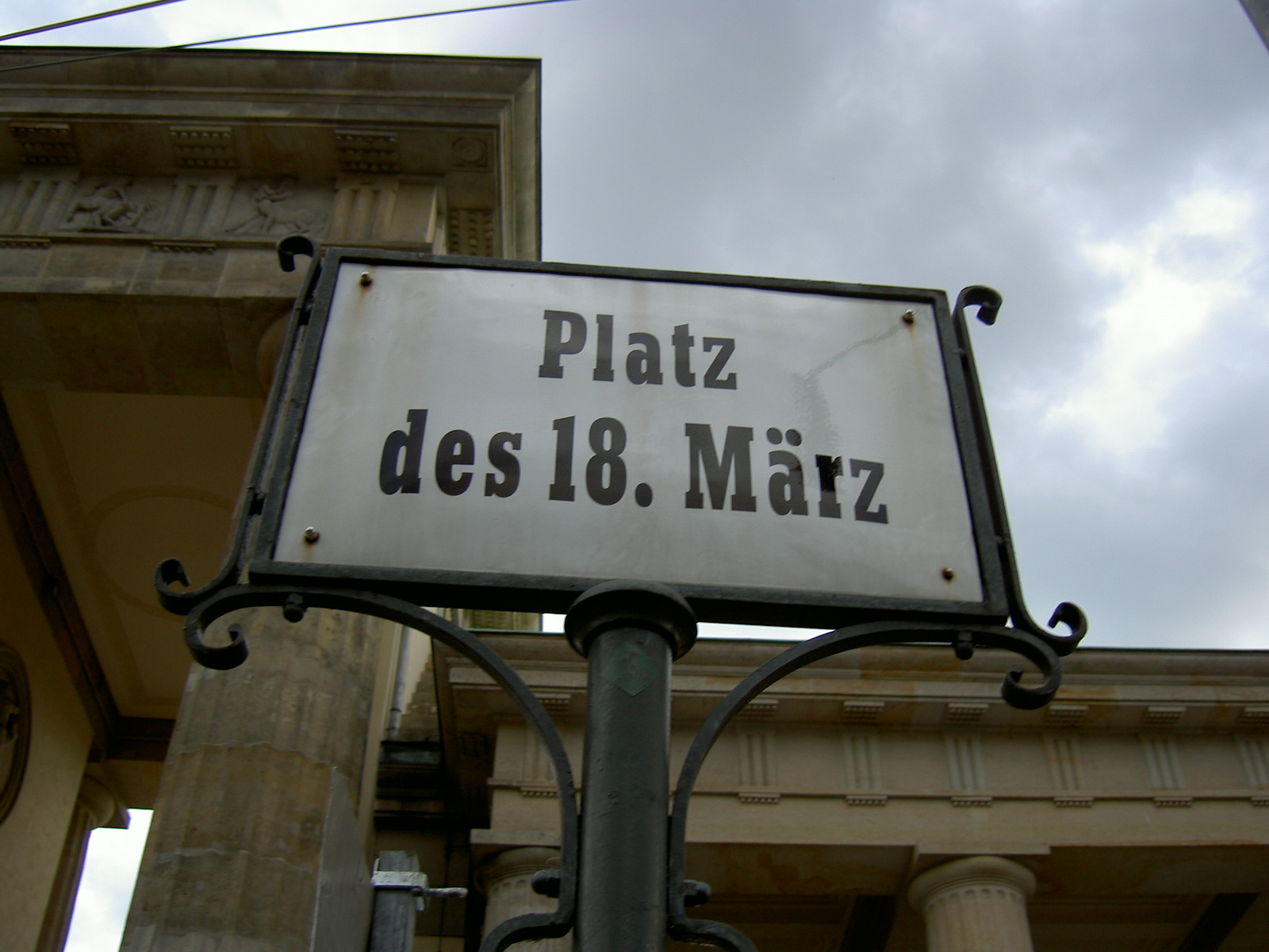 Sign at the place 18. March